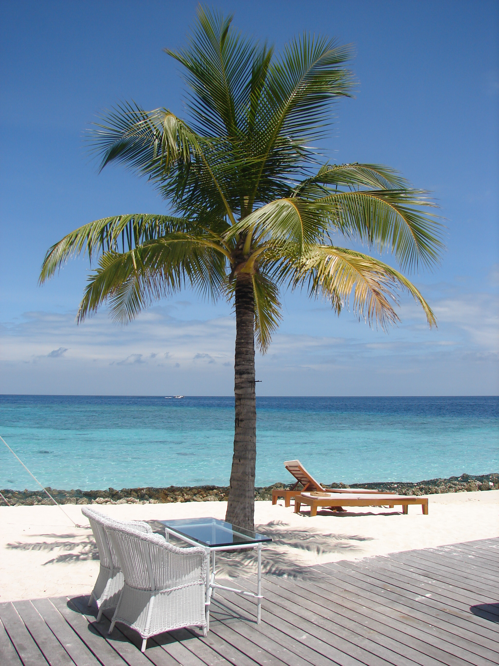 Photographs from Maldives